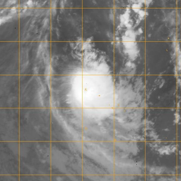 Infrared satellite image of Severe Tropical Cyclone Pat as it passed directly over Aitutaki in the Cook Islands at peak intensity